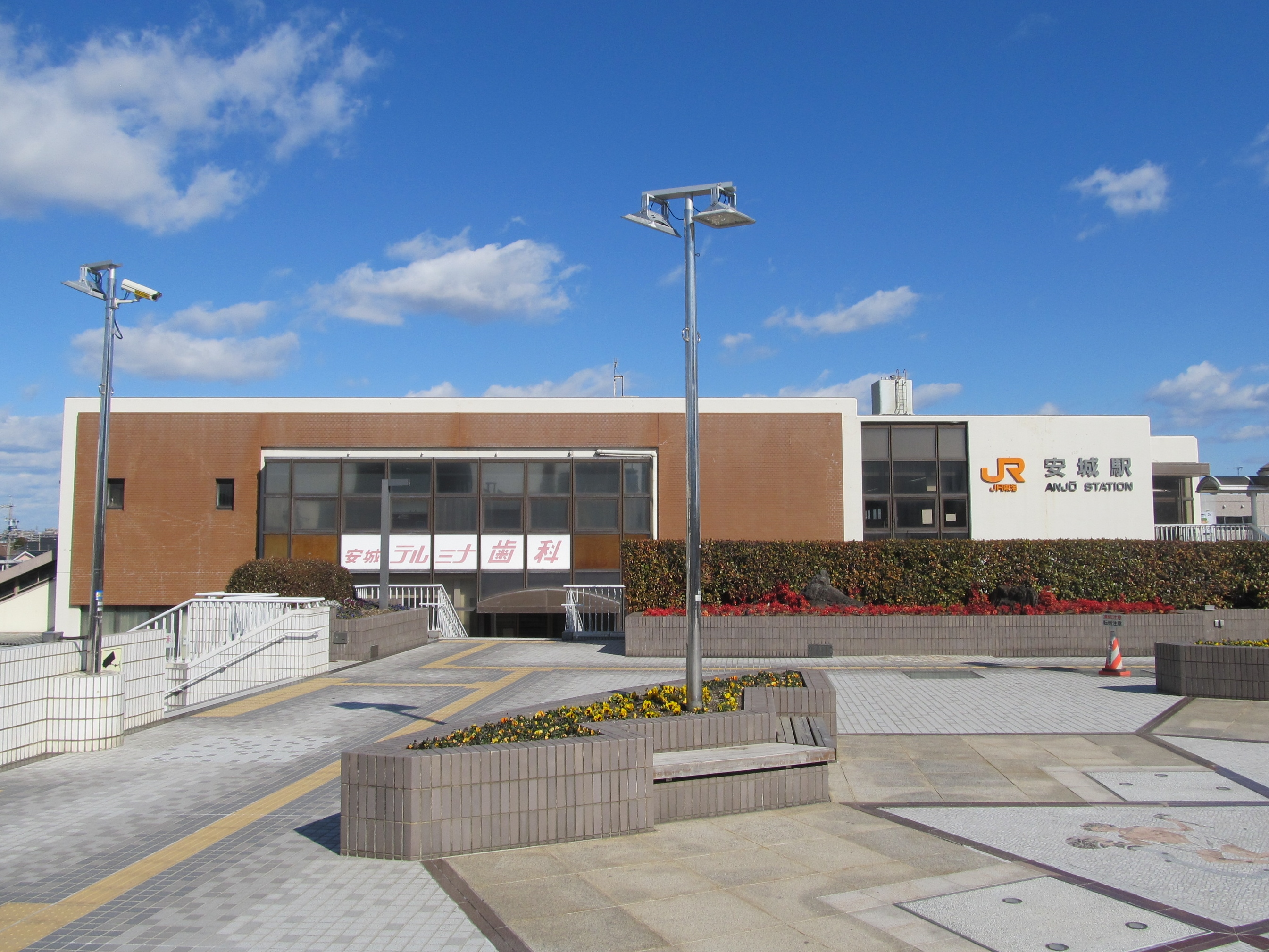 Central Japan Railway Tōkaidō Main Line Anjō Station building